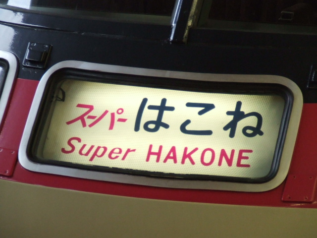 Expression〝Super HAKONE〟,Model 7000 -Odakyu RomanceCar LSE-,Odakyu Electric Railway,Japan